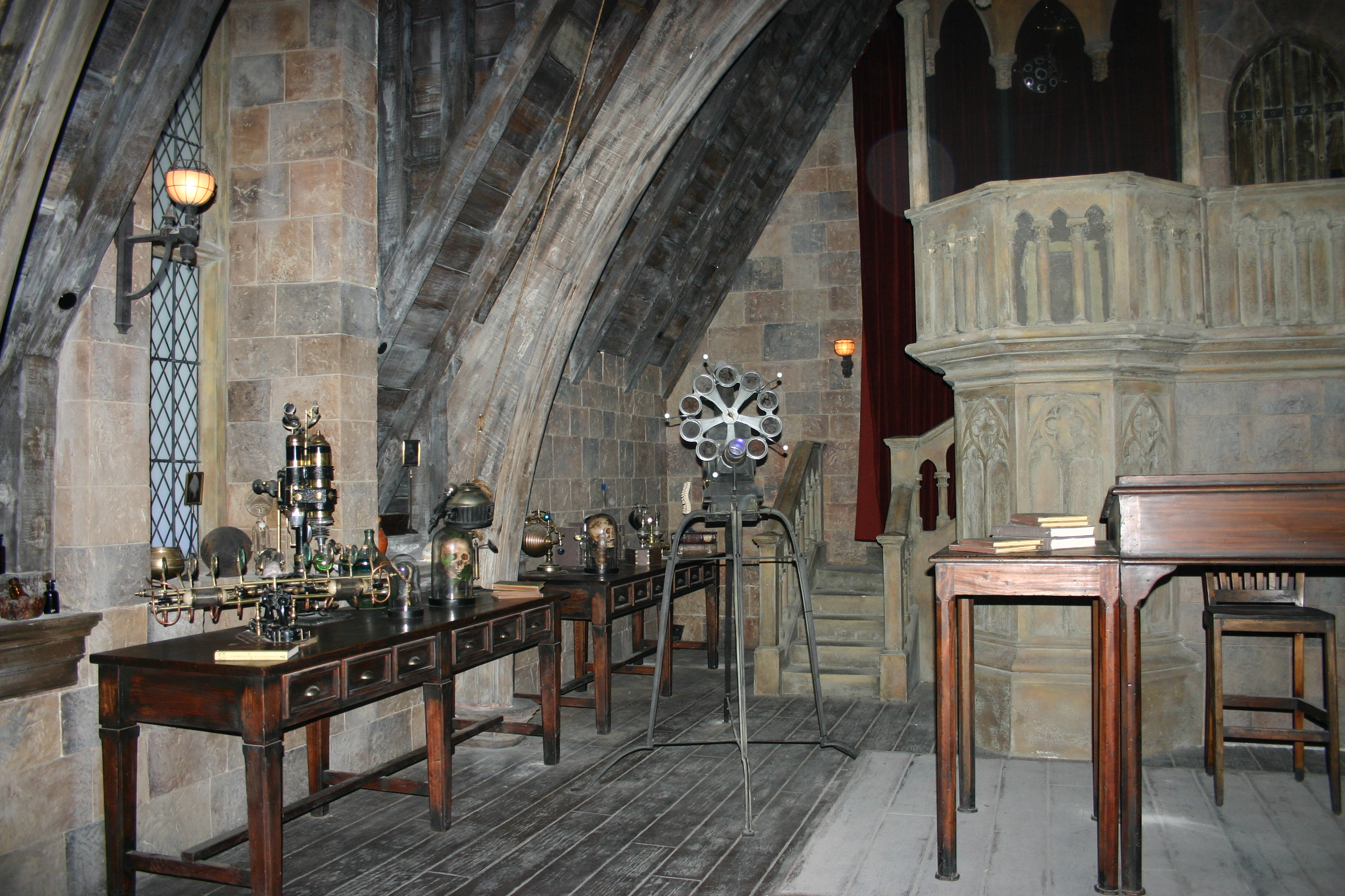 Harry Potter and the Forbidden Journey queue, Wizarding World of Harry Potter, Islands of Adventure, Defence Against Dark Arts classroom.